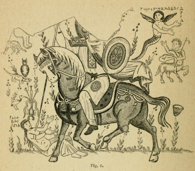 Fresco unearthed at Bawit. Mounted figure is Sissinios (only "os") remains, the trampled female is labeled Alabasandria.